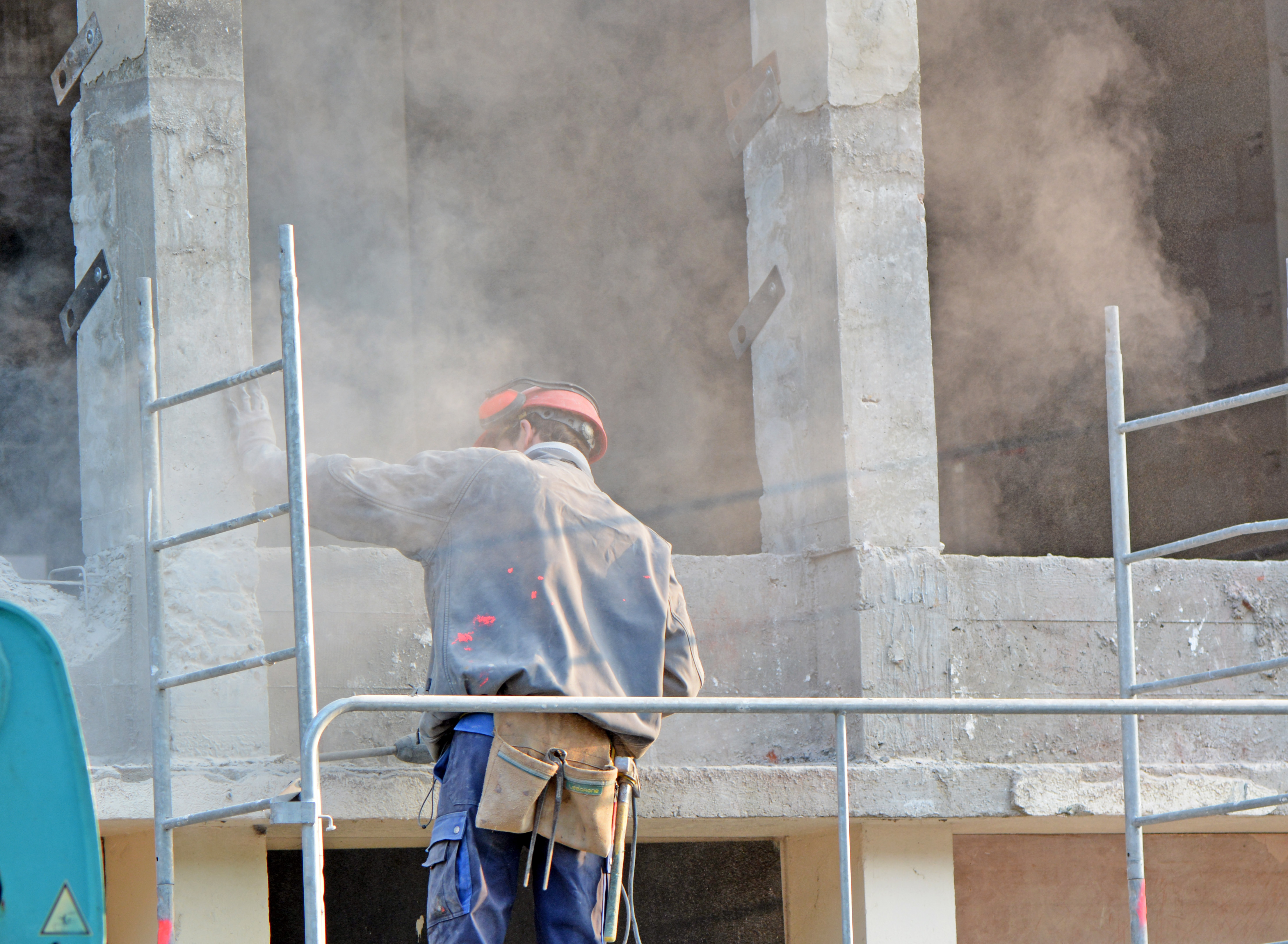 Cloud of dust and worker without mask and without hearing protection during a rehabilitation project (Lille, Northern France). Inhaling this type of dust exposes a risk of silicosis or other lung diseases.